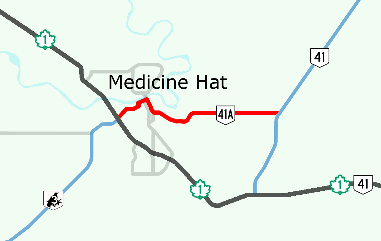 Alberta Highway 41A - created with OpenStreetMap